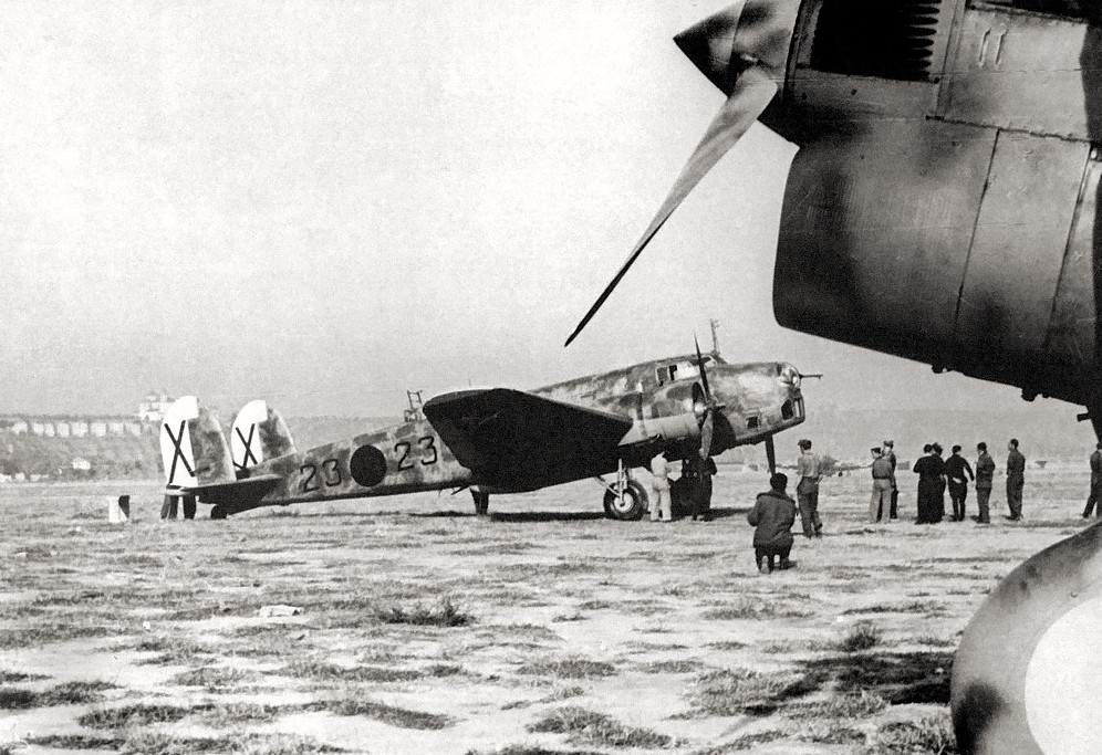 One of the Fiat B.R.20 of the "Grupo G-23" maked over to the Spanish Air Force after the war.